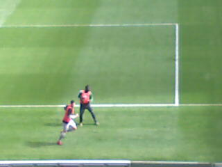 Victor Wanyama and Dominic Cervi warming up during Celtic's match against Dundee United on 13 August 2011